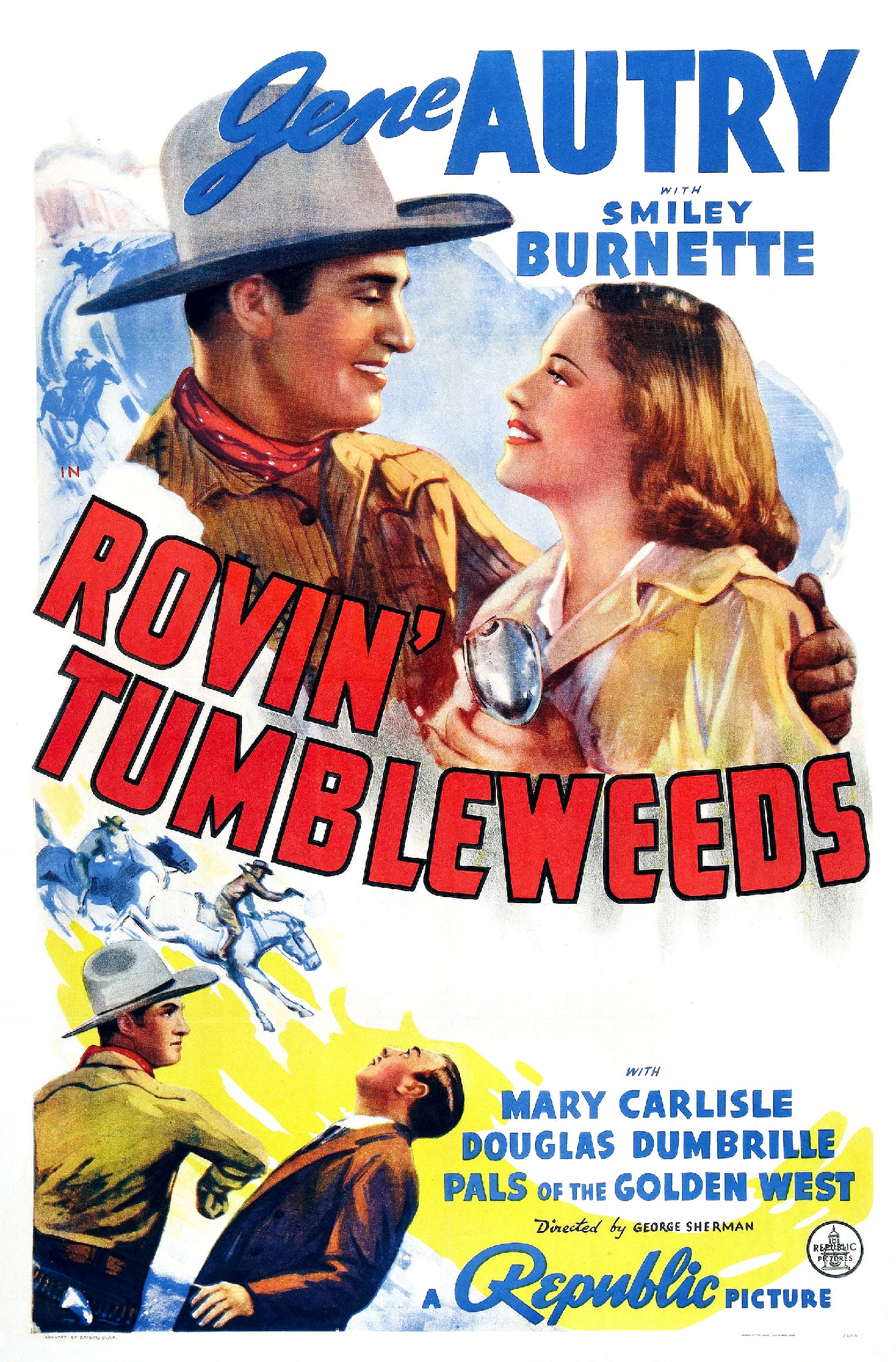 Poster for the 1939 film Rovin' Tumbleweeds. The item has no copyright markings on it as can be seen in the links above. At lower right is Morgan litho, Cleveland Ohio-this is the company who produced the poster. At lower left is "Country of origin USA".